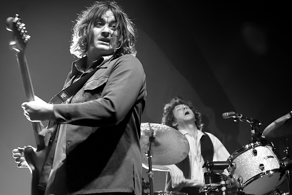 The Zutons at The Brixton Academy, Brixton, London, UK.